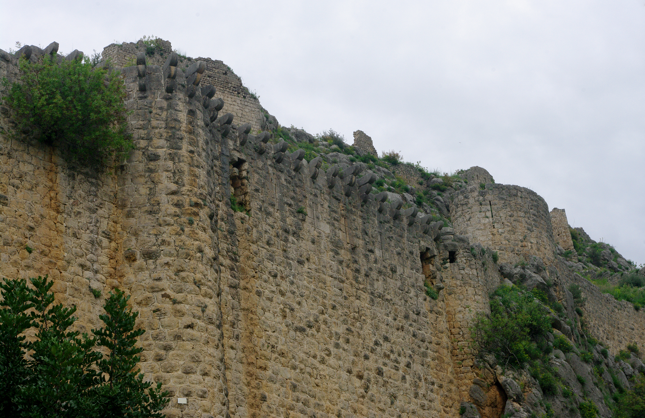 A view of nortwestern side walls of Kozan Castle. Kozan, Adana - Turkey.